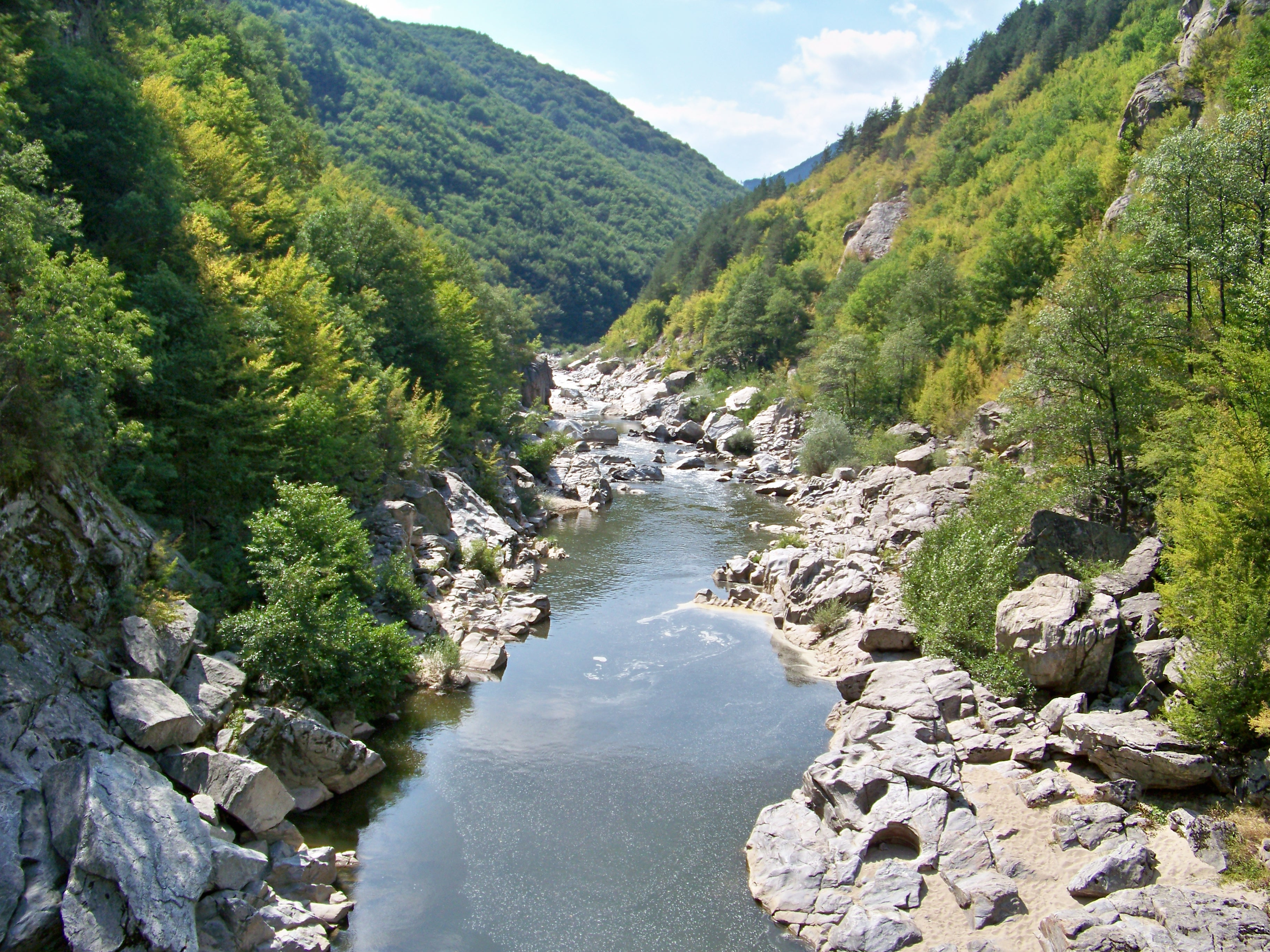 The Dyavolski most (Bulgarian: Дяволски мост, "Devil's Bridge"; Turkish: Şeytan Köprüsü) is an arch bridge over the Arda River situated in a narrow gorge. It is located 10 km (6.2 mi) from the Bulgarian town of Ardino in the Rhodope Mountains and is part of the ancient road connecting the lowlands of Thrace with the north Aegean Sea coast.